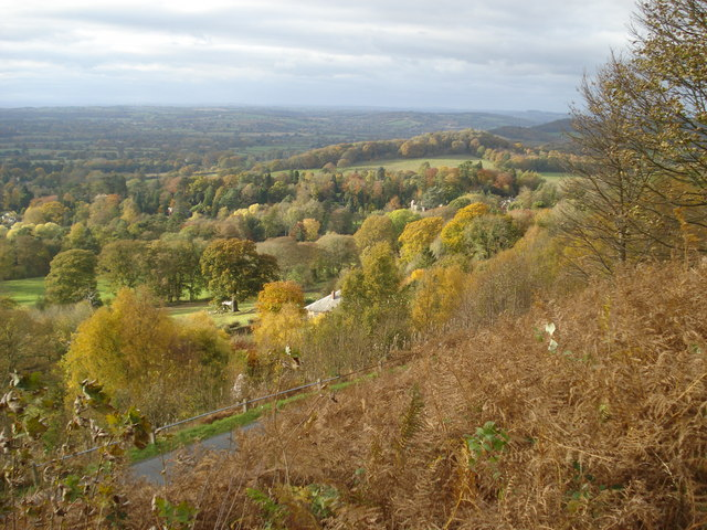 Autumn colour at Colwall Looking north-west from above Jubilee Drive.